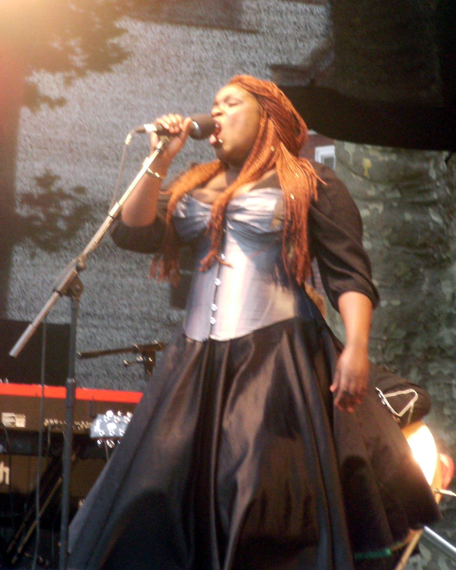 crop of Yolanda Quartey of Phantom Limb. Levels adjusted.